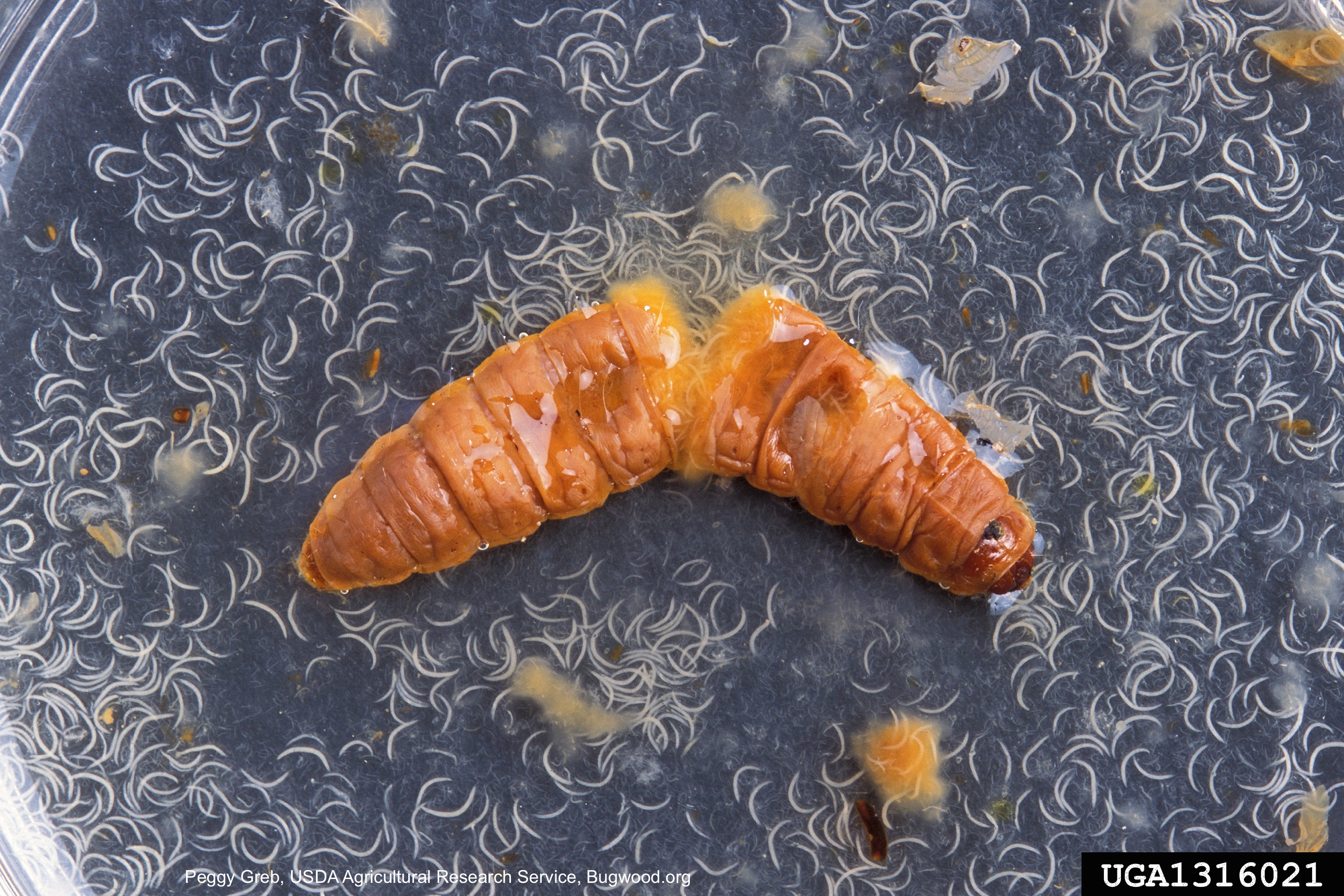 Inside one of these plump wax moth cadavers are thousands of wiggly nematodes, ready to serve as biocontrols against soil-dwelling crop pests. The cadavers can be placed in orchard or greenhouse soil, and the nematodes will emerge to protect crops from pests such as citrus root and black vine weevils .